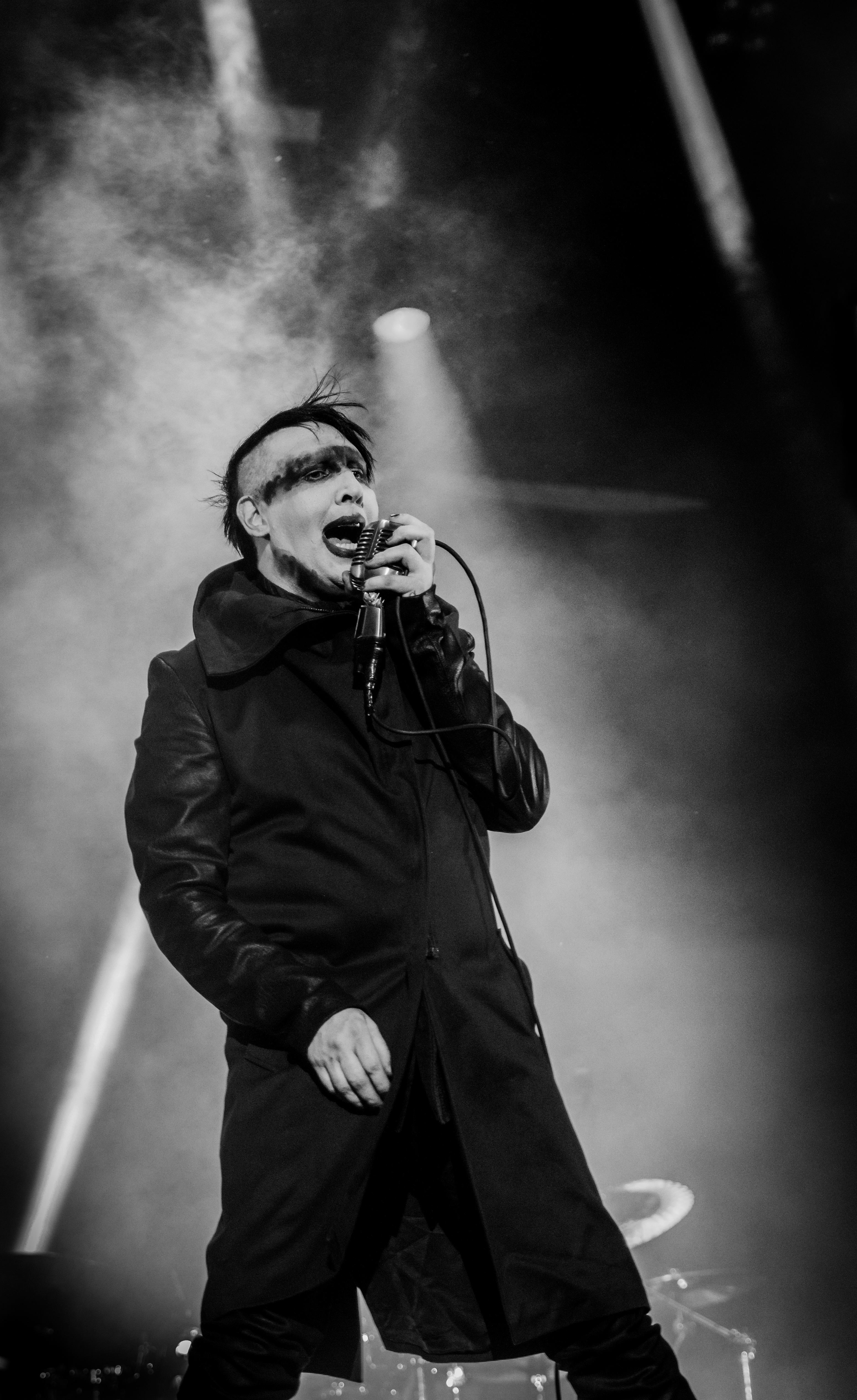 Marilyn Manson - Rock am Ring 2015